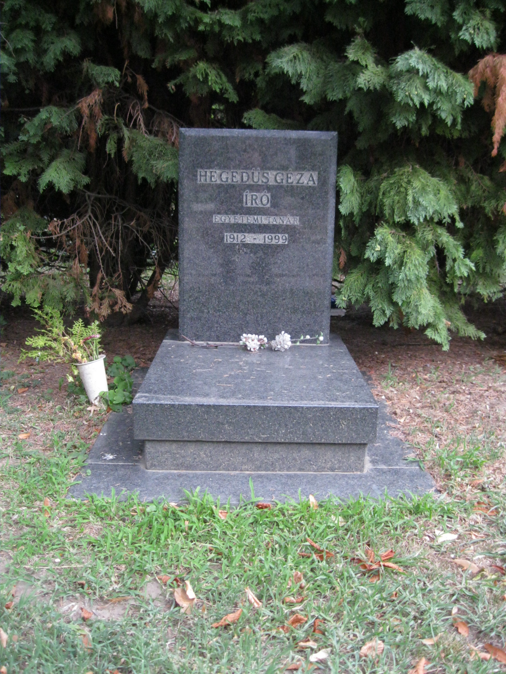 Tomb of Géza Hegedüs in Farkasréti Cemetery